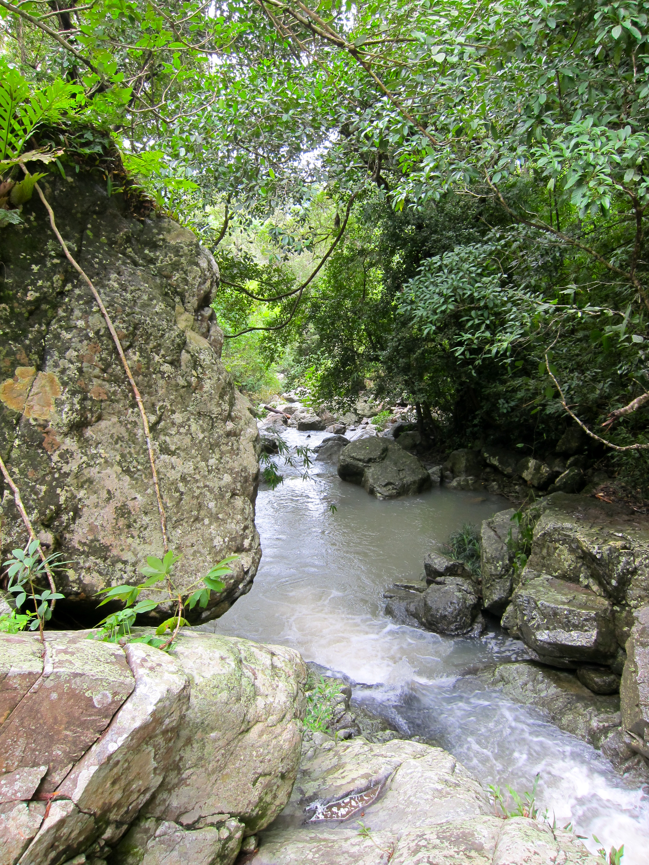 Waterfall in Phuoc Binh National Park, Ninh Thuan Province, Vietnam